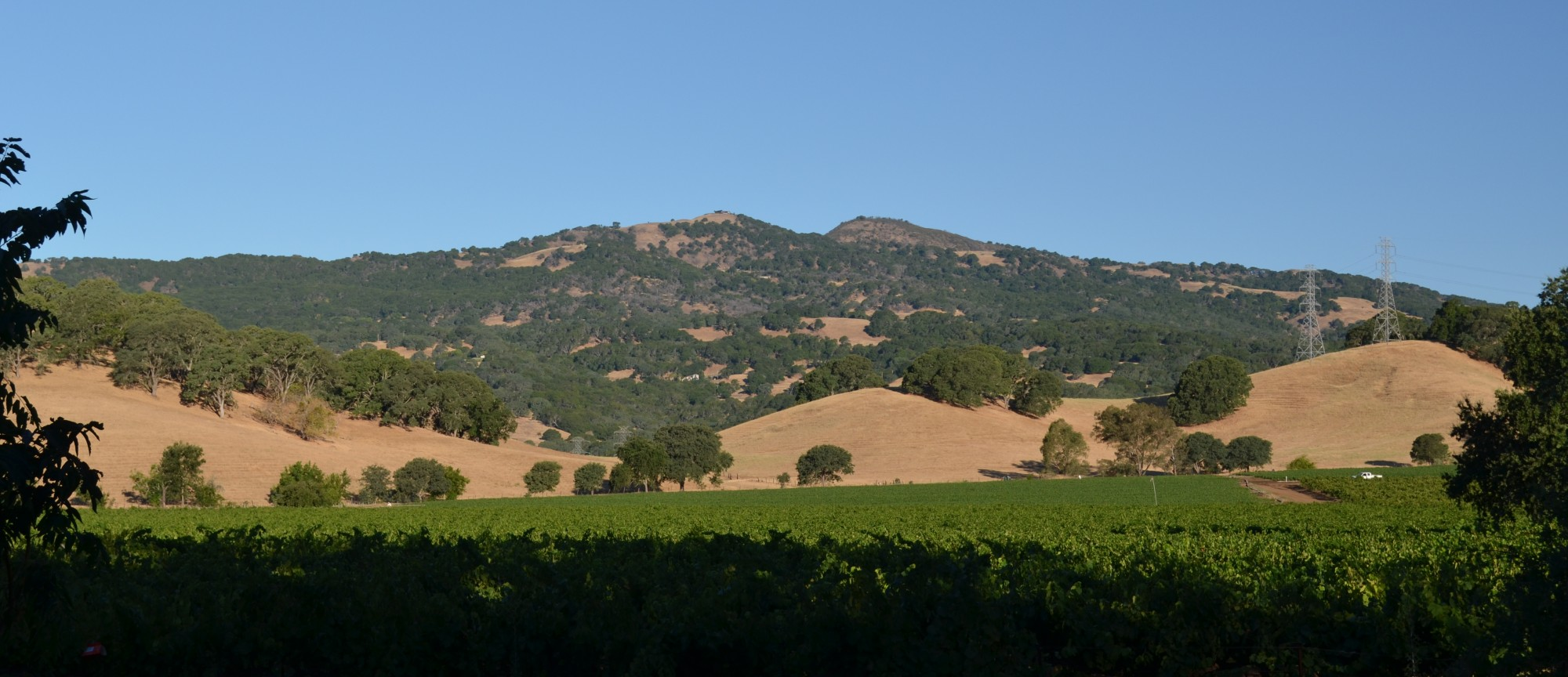 Twin Sisters summit as seen from the lower reaches of Suisun Valley